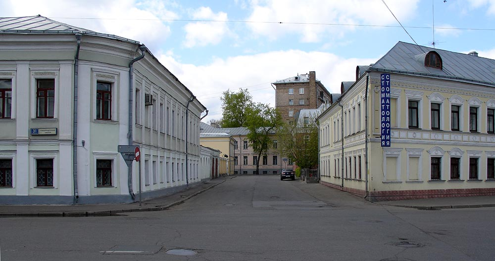 Moscow, Tovarischesky Lane